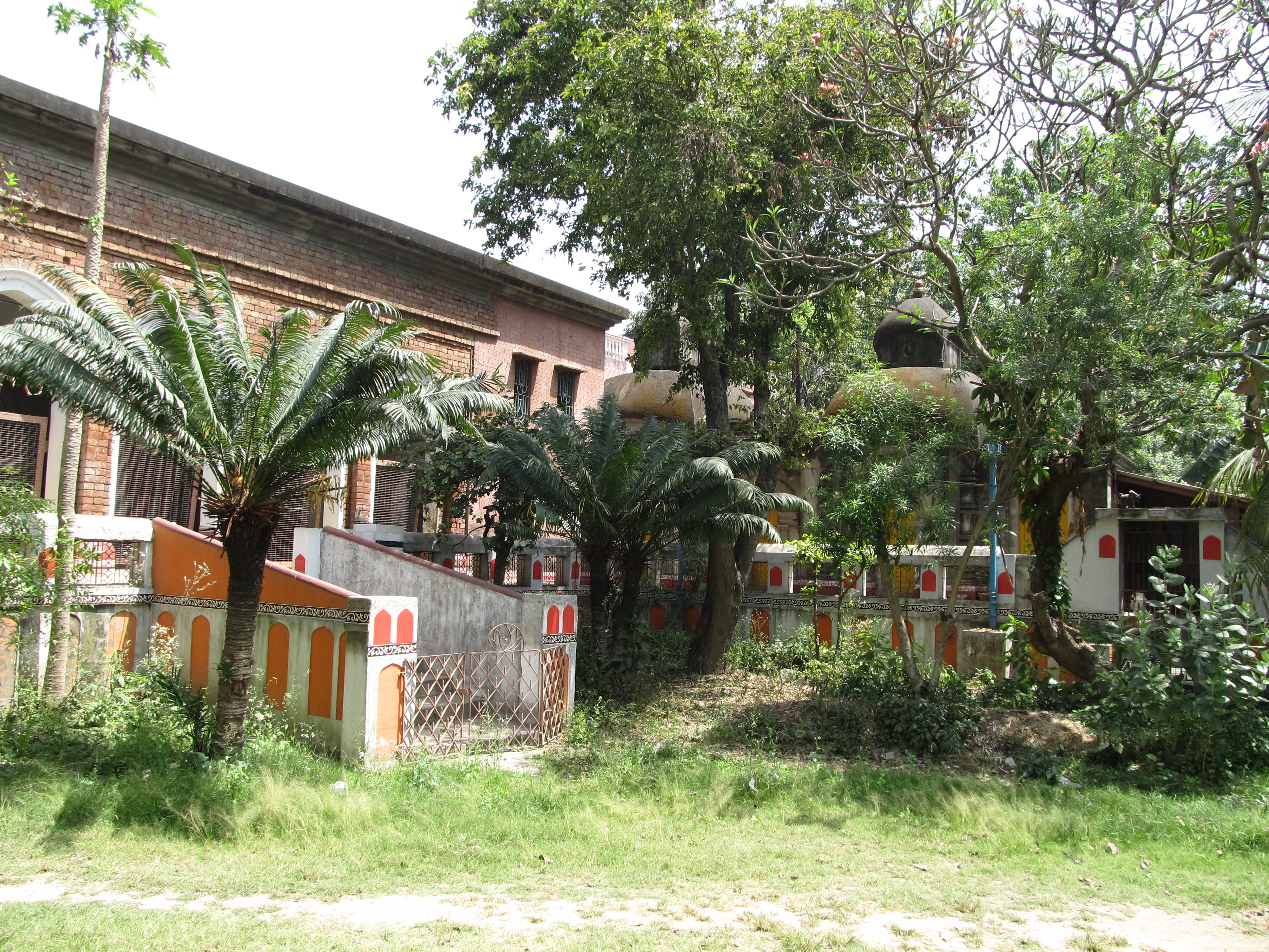 Photographed at Andul, Howrah.